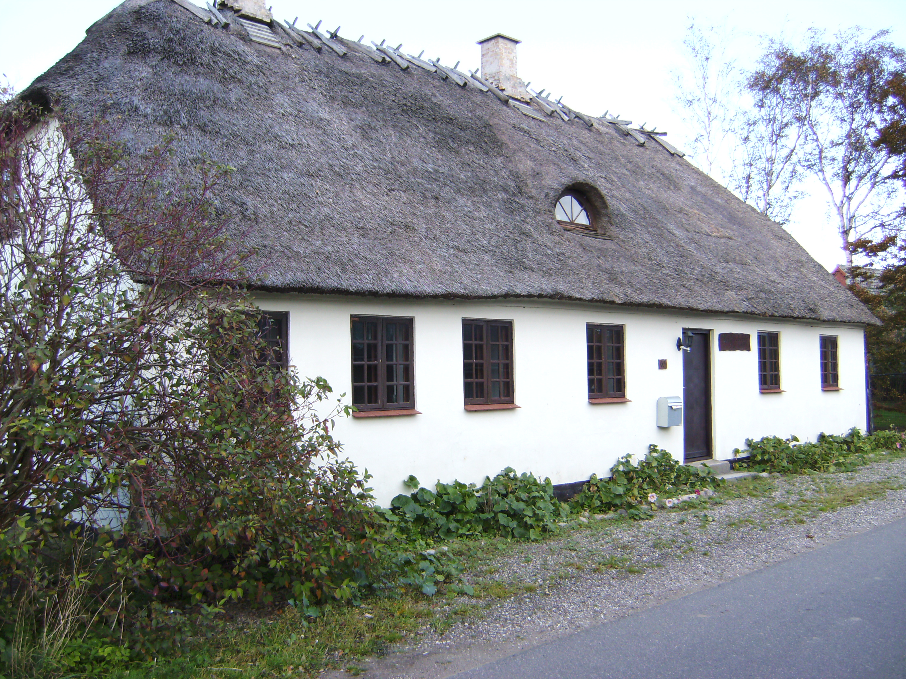 Former school